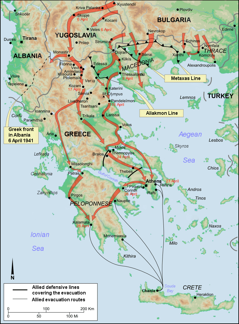 English translation based on French original